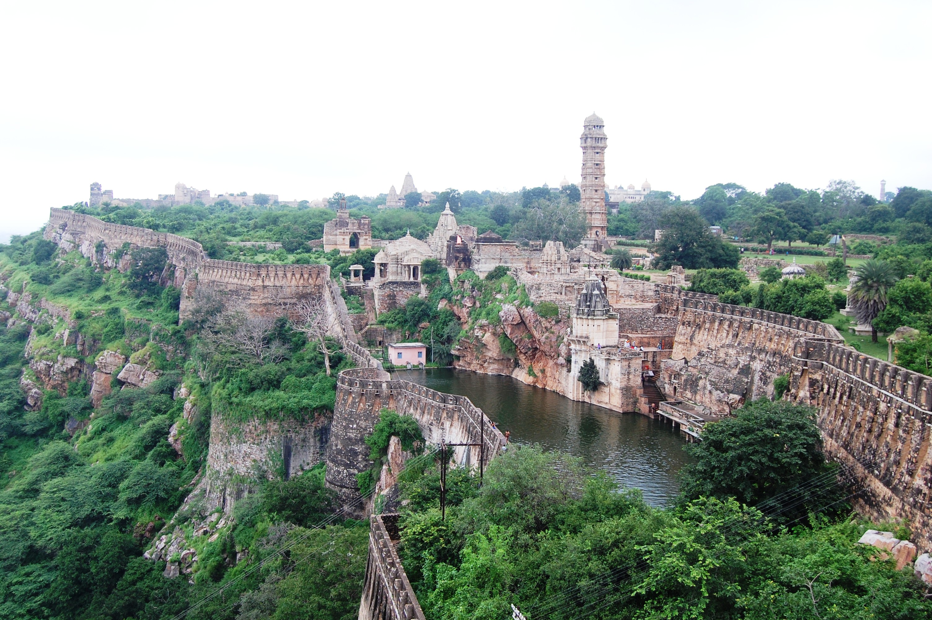 Chittorgarh Fort, a famous monument of India